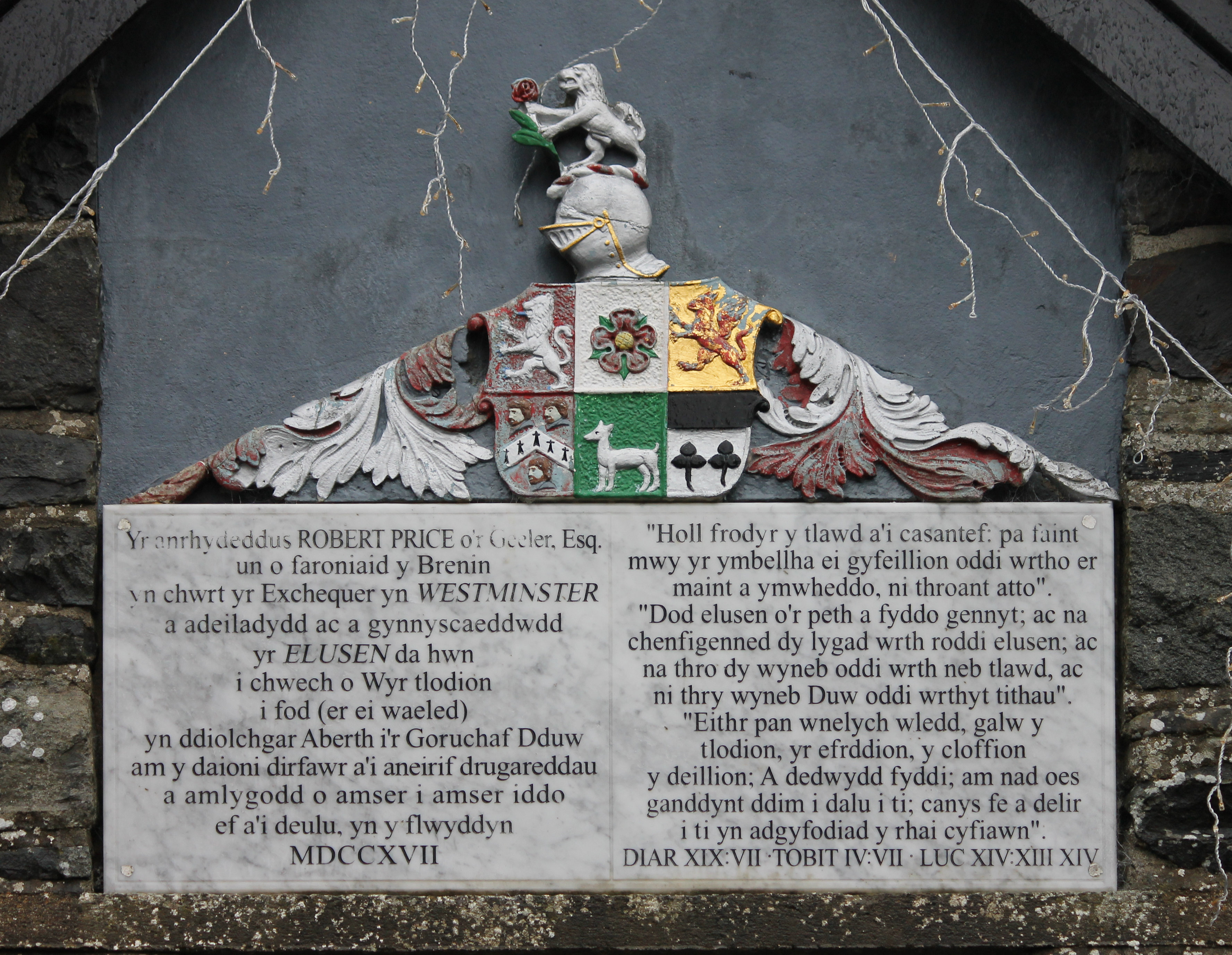 St Mary Magdalen Church, Cerrigydrudion, Wales. Listing Date: 31 January 1952 Last Amended: 17 February 1998 Grade: II Source: Cadw Source ID: 70